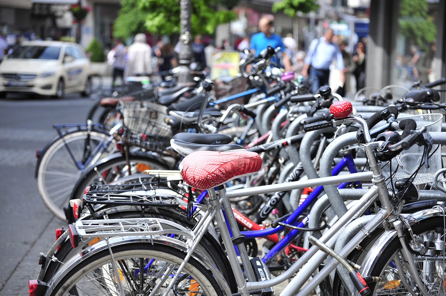 A cluster of bikes at a bicycle rack in Würzburg. This is a very common method of transportation in the city center.